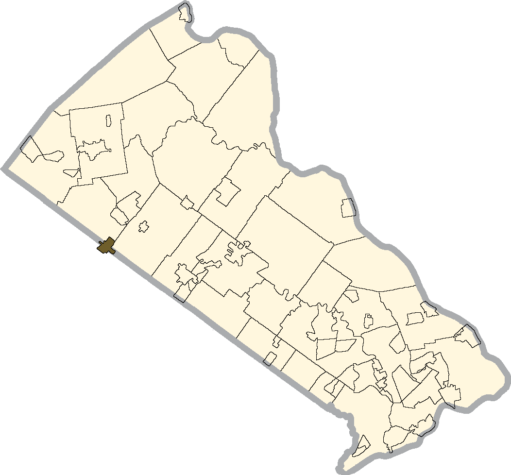 Telford shaded on the map of Bucks county, PA.